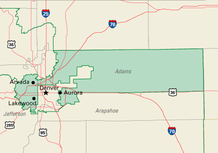 From